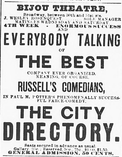 Advertisement for play "The City Directory" in the New York Sun on March 2, 1890.